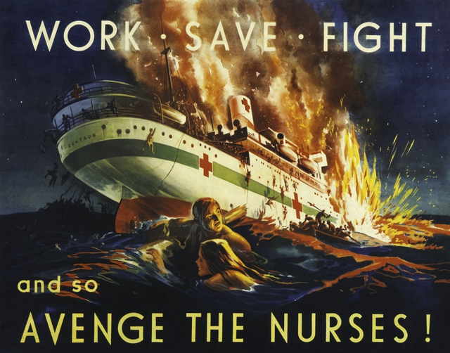 Second World War poster featuring the sinking of the Australian hospital ship Centaur in May 1943.